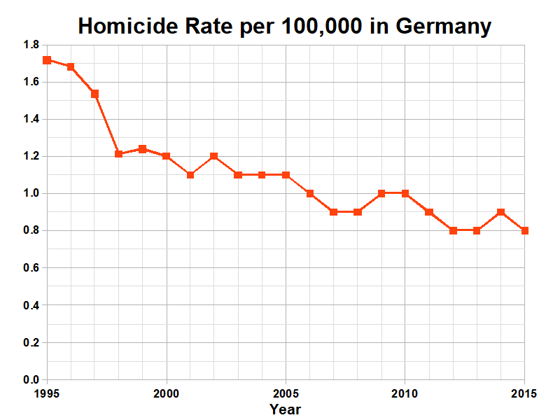 Homicide rate per 100.000 in Germany. Data taken from